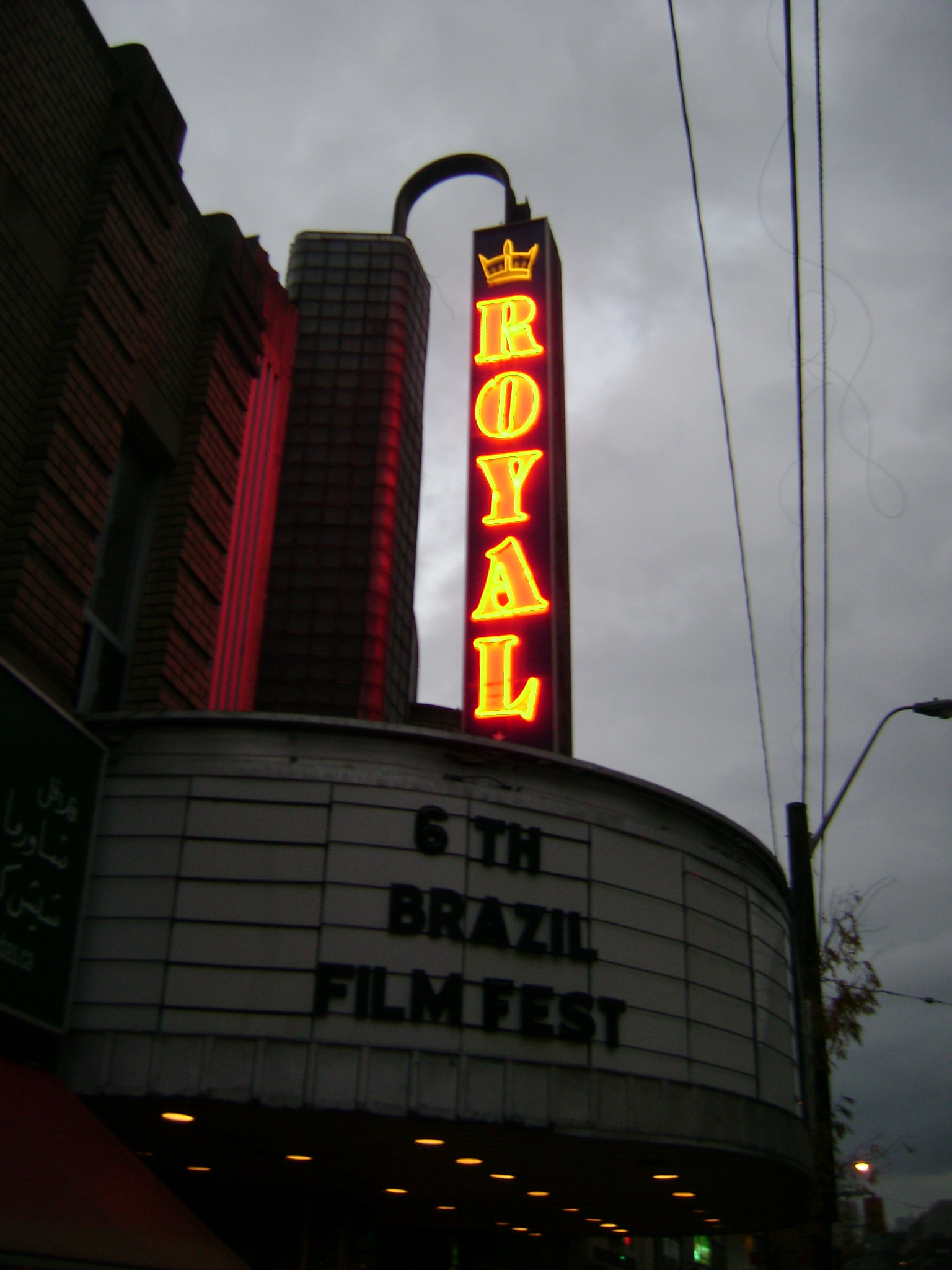 6th Brazil Filme Fest in The Royal, Toronto.